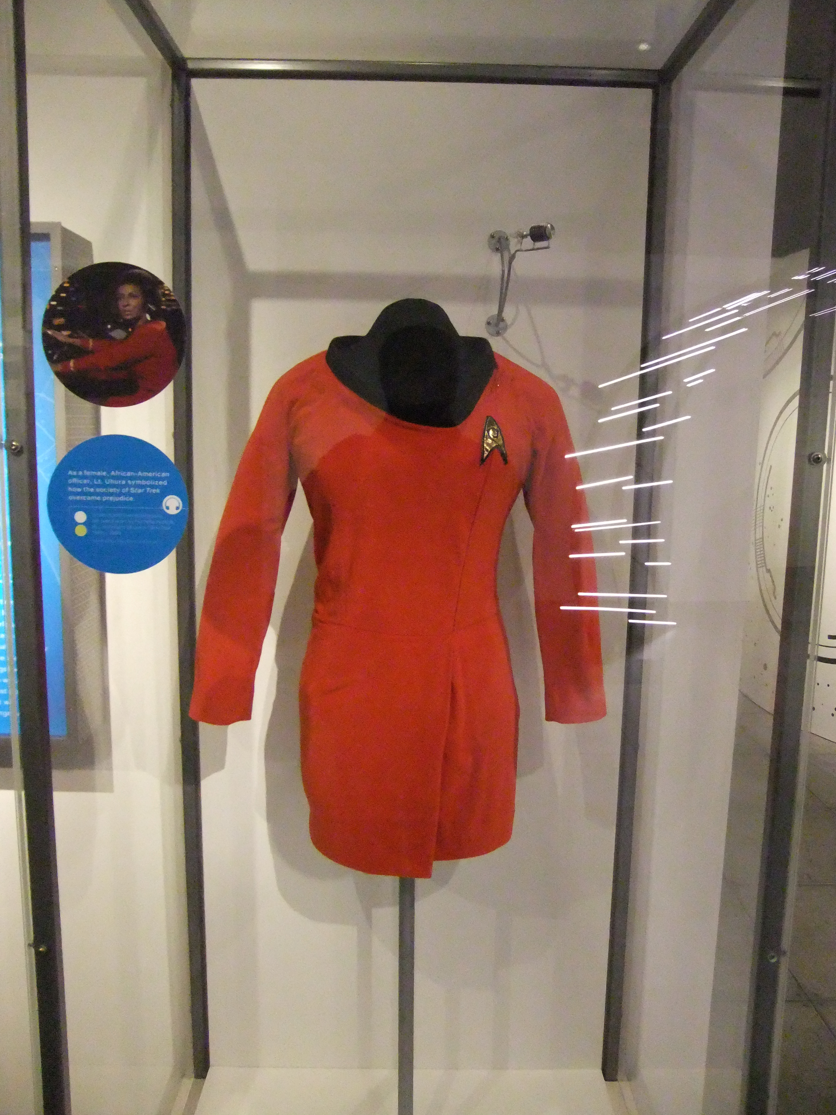 Experience Music Project/Science Fiction Hall of Fame, Seattle.